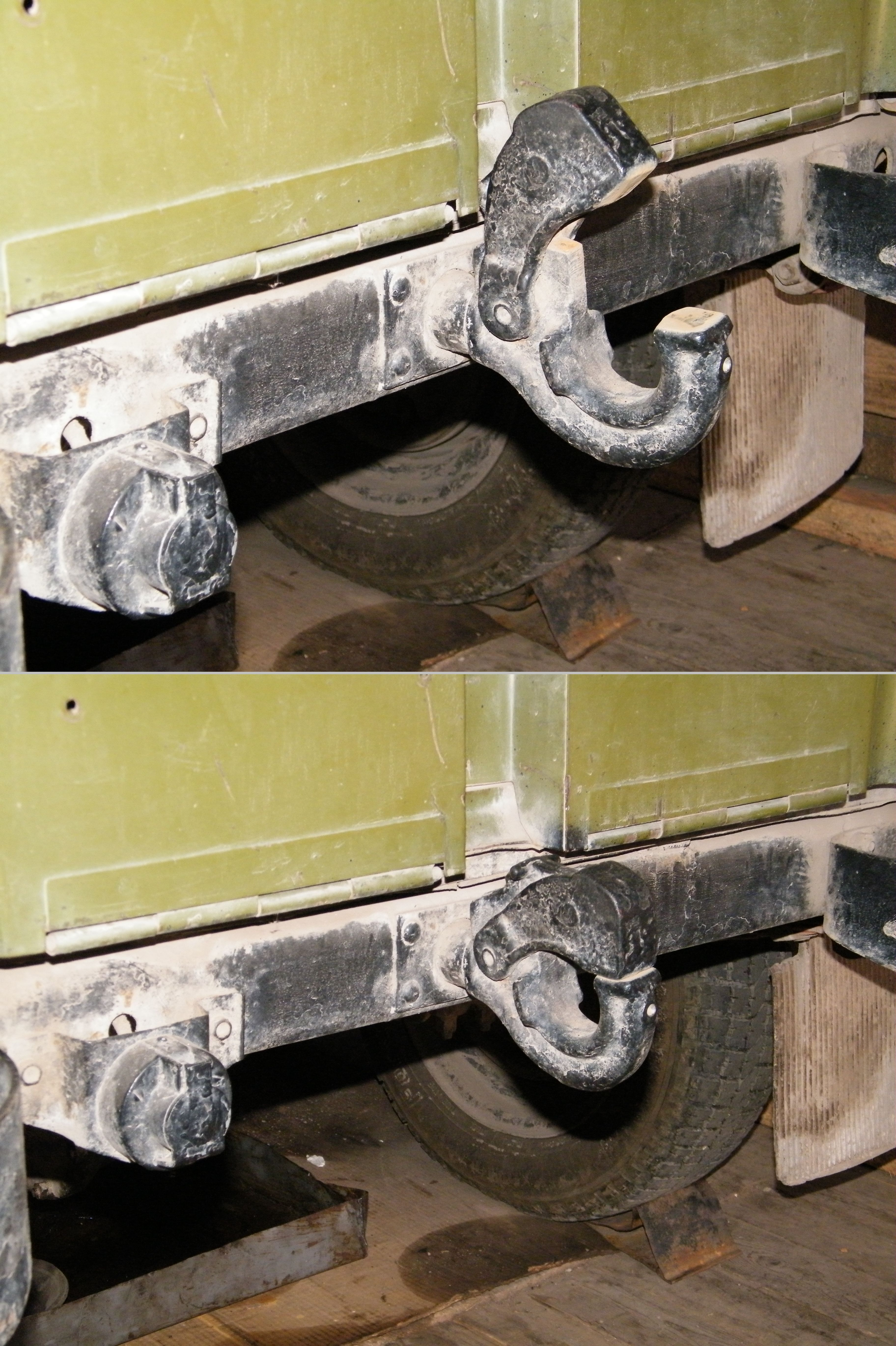 GAZ-69